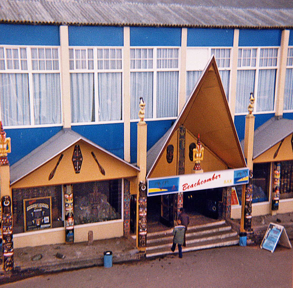 Entrance of the Beachcomber Bar at the Butlins Ayr camp in 1985. (In hindsight, this is obviously a Butlins version of a Tiki bar (externally at least) in the cod-Polynesian Tiki style. Even the name reflects this.)